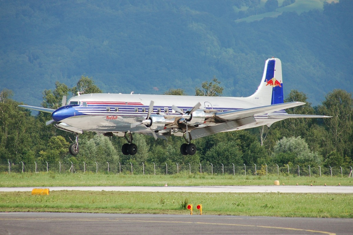 DC6 of Flyingbulls landing runway 35 at LOWS (Salzburg)